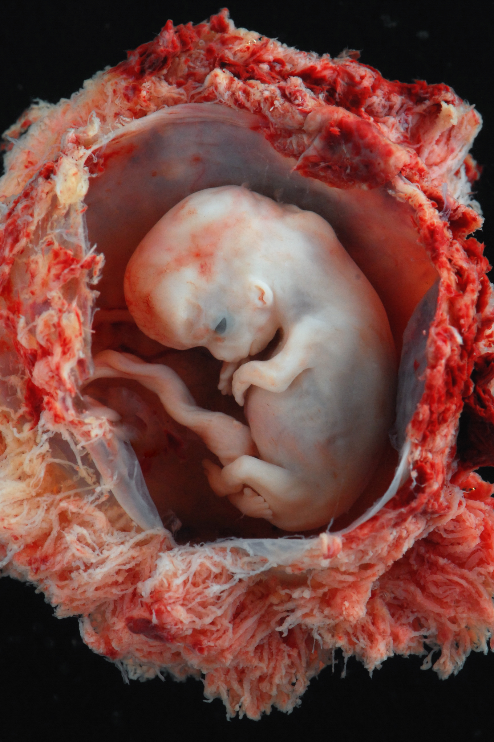 Embryo, approximately 8 weeks from conception, 10 weeks estimated gestational age from LMP. This was taken with a Nikon D200 and a 105 mm micro Nikkor with 3 SB-800's off camera, fired with an SB-900 on camera, commander mode, TTL.